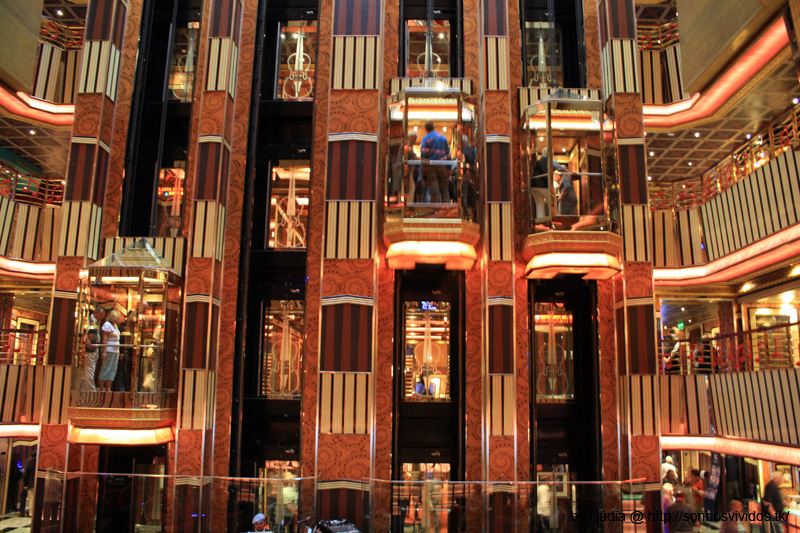 Costa Pacifica